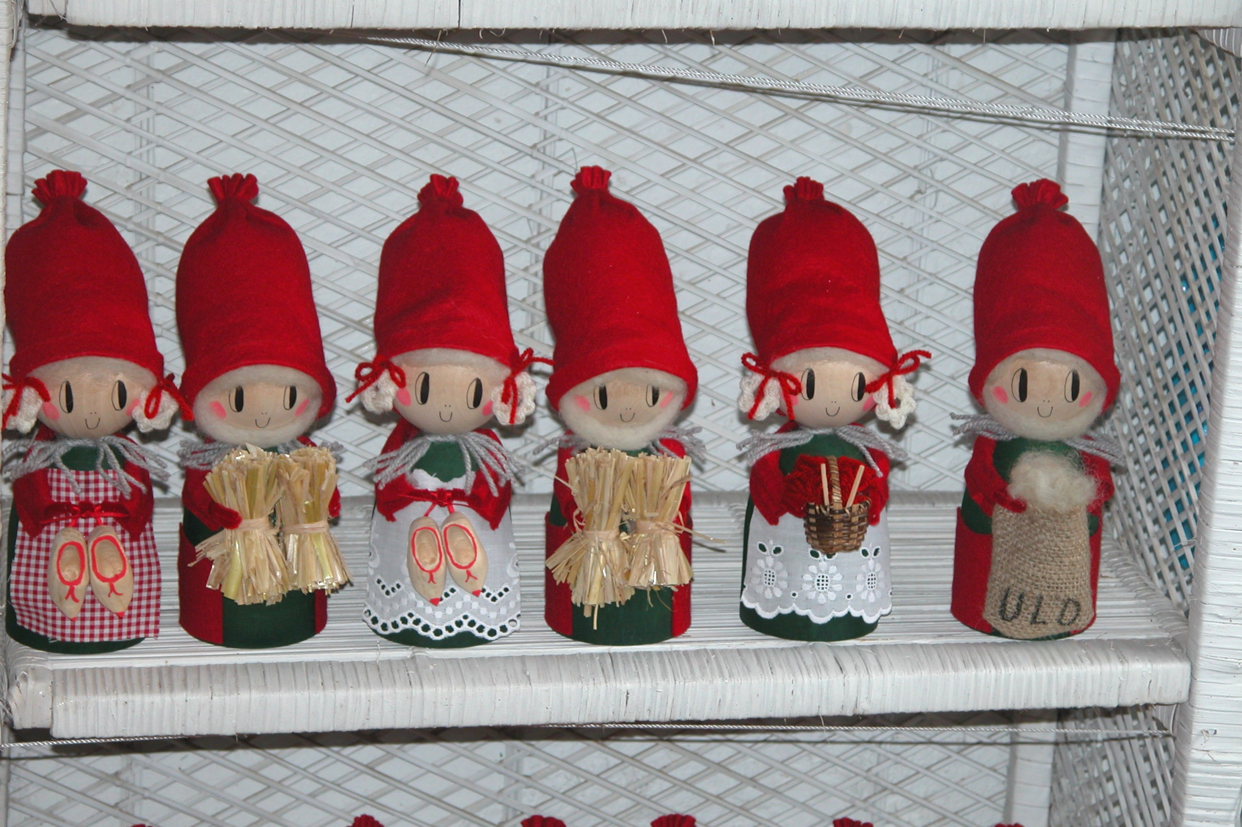 Nisser or the tomte from Nissehuset - Bro - Ærø